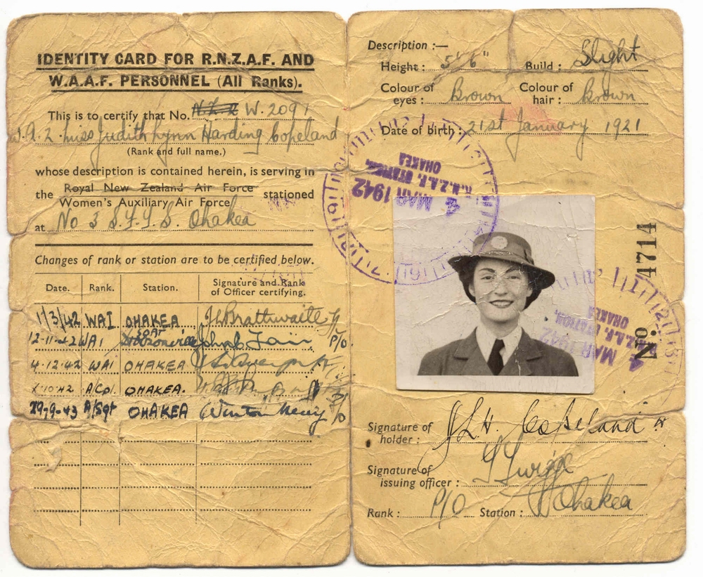 WAAF Judith Copeland 1921 - 2003 Identity card of RNZAF WAAF Judith Copeland. Photos of Judith Copeland. Born New Zealand 1921. Joined RNZAF during WWII and participated in the London Victory Parade 1946. Married Alastair Scott 1947. Mother of Christine and Jennifer. Won Mrs Manawatu Contest 1960. Died Adelaide South Australia 2003.